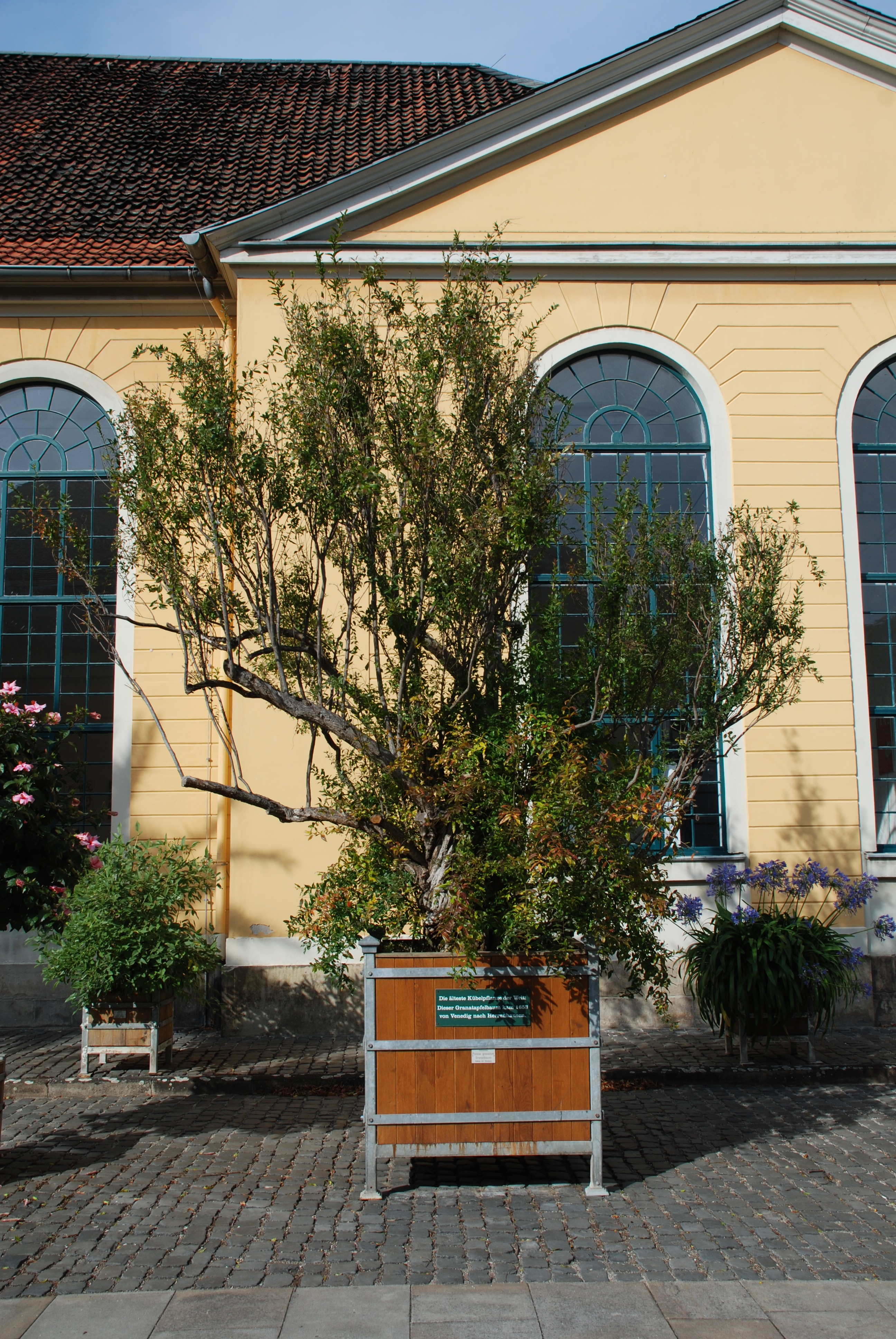 Pomegranate (Punica Granatum). Came in 1653 from Venice to Herrenhausen (Hanover, Germany).